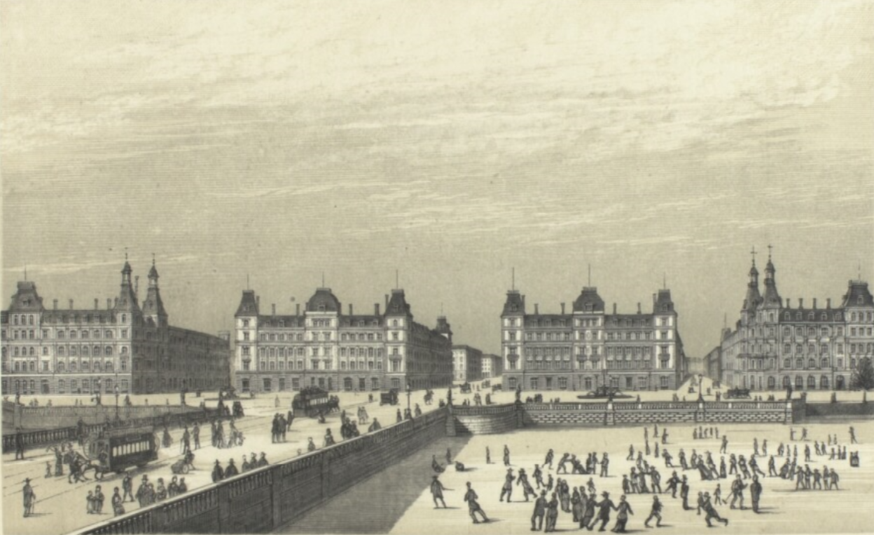 View of Søtorvet in Copenhagen, Denmark